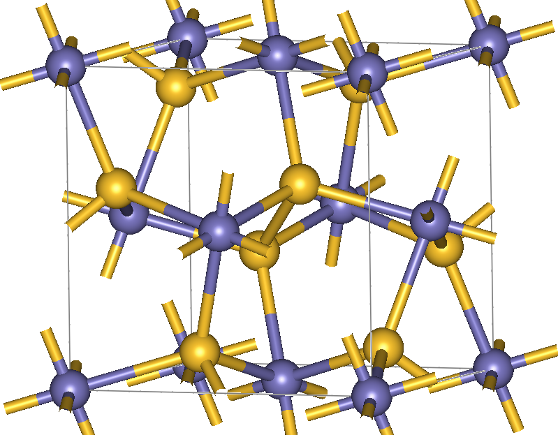 Iron sulfide-type structure. Same for ZnO2. Yellow atoms are sulfur (or oxygen) Journal = JOURNAL OF ALLOYS AND COMPOUNDS Year = 1992 Volume = 178 Page = 181-191 Title = Preparation and electrical transport properties of pyrite (FeS2) single crystals Authors = Willeke G., Blenk O., Kloc C., Bucher E.